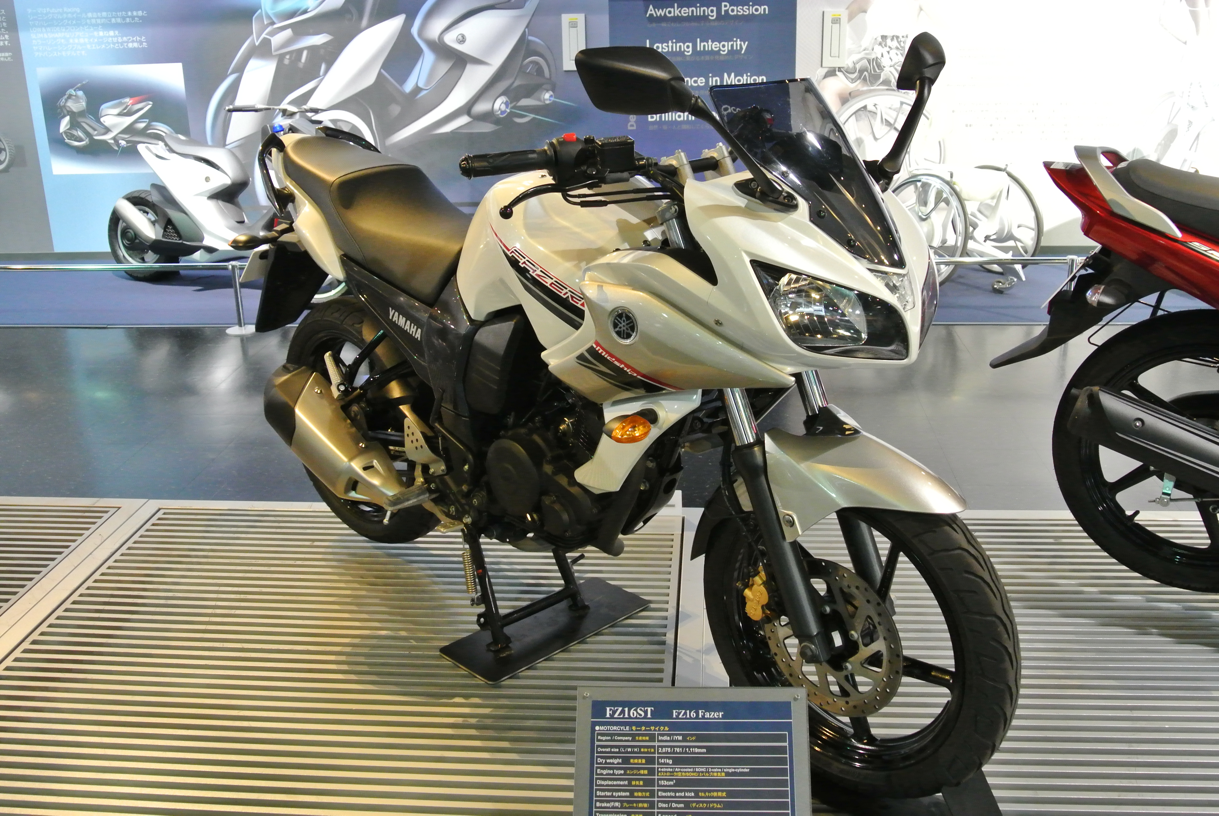 Yamaha FZ16ST fazer in the Yamaha Communication Plaza.